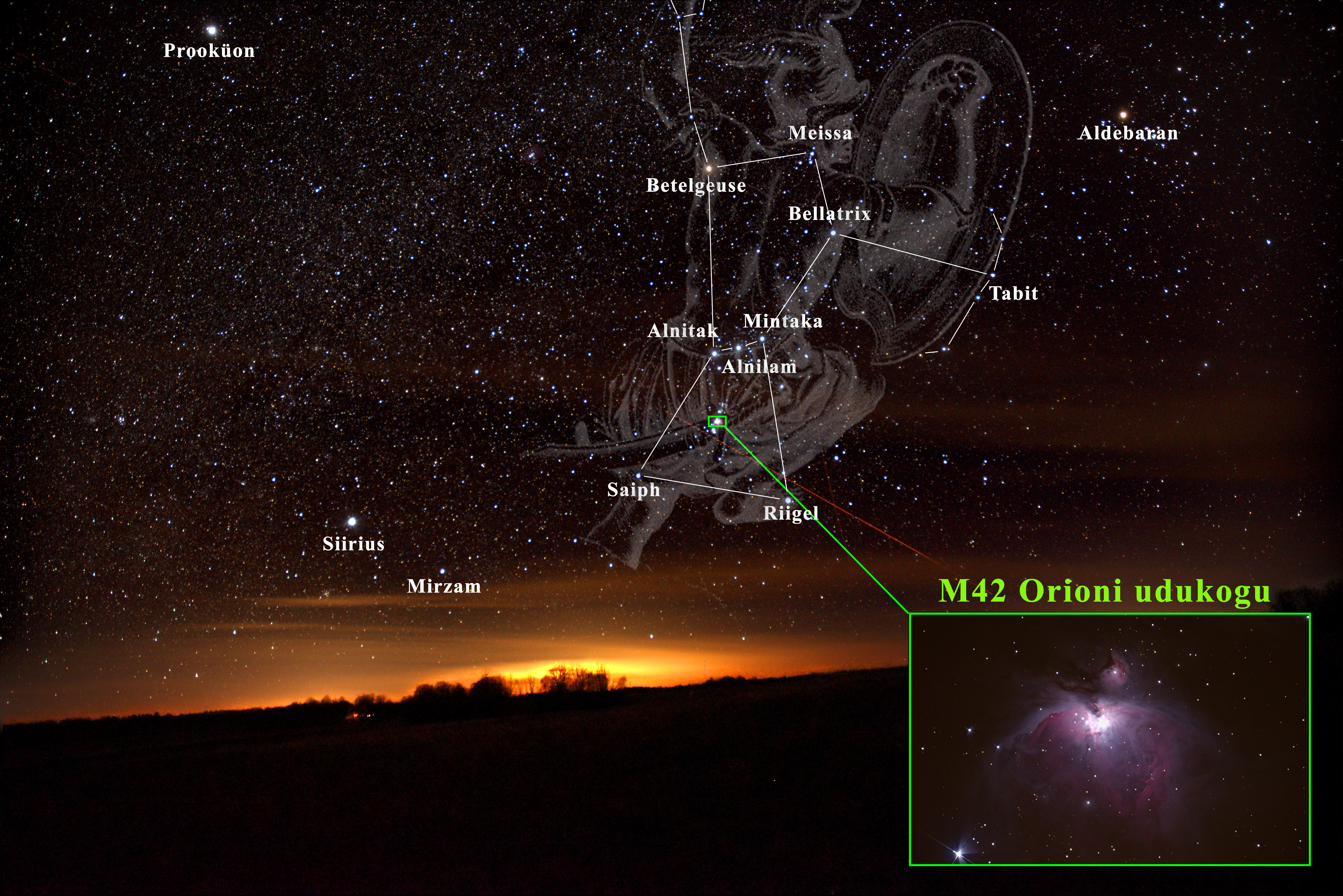 Orion constellation with connecting lines.